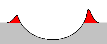 A side view of a crater, with the "rim" highlighted in red by using Gimp 2.2.6.